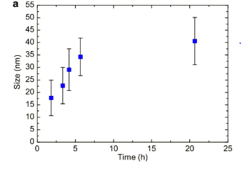 Magnetite Growth in Laboratory Settings